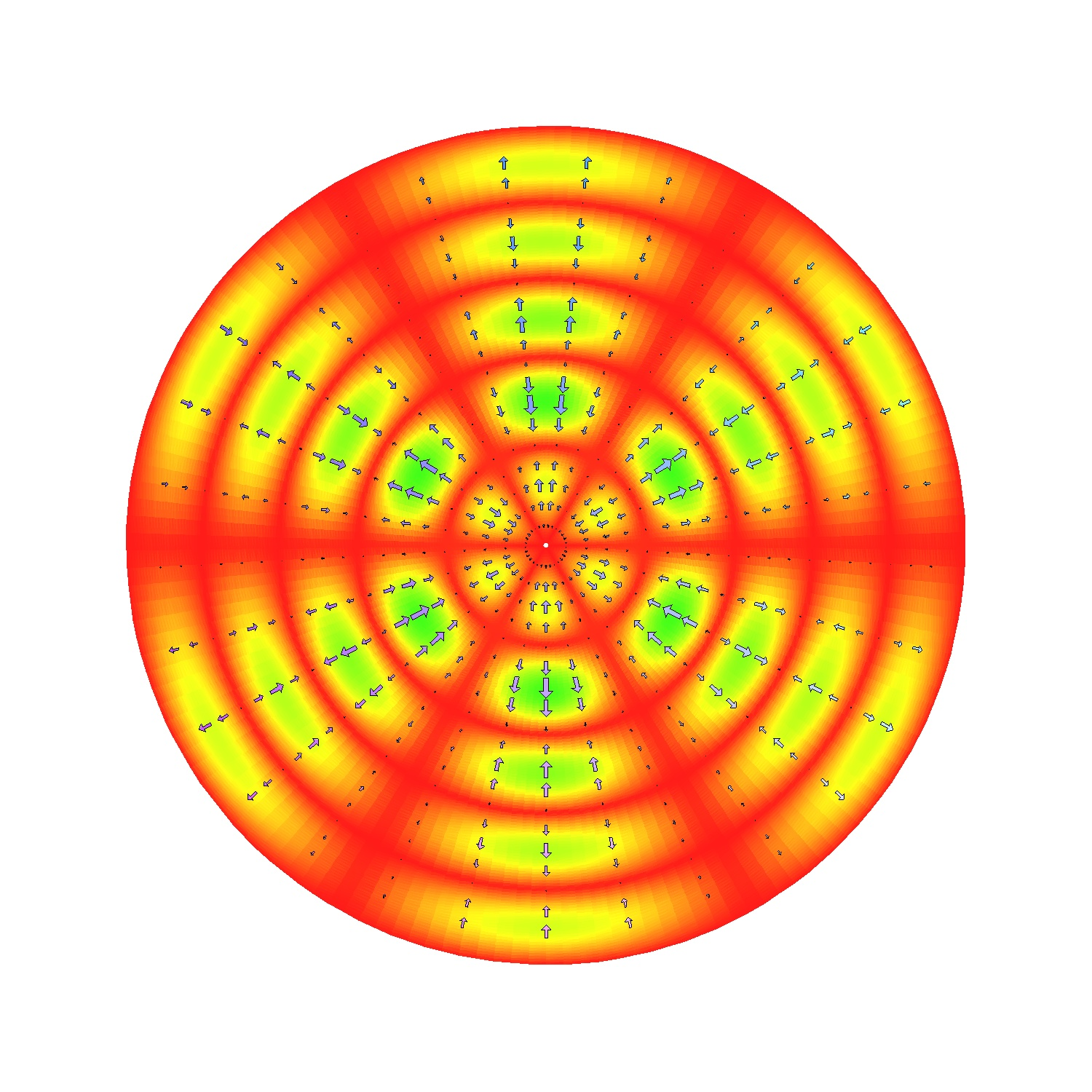 Plot of E and H fields on the TEnl mode defined by n and l.